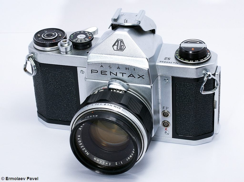 SLR-camera Asahi Pentax S2